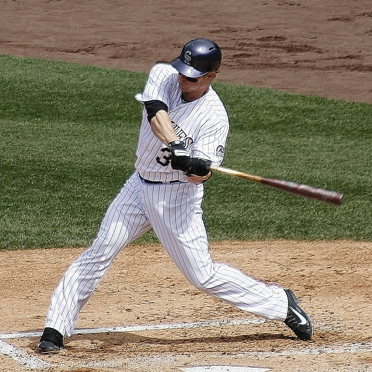 Justin Morneau